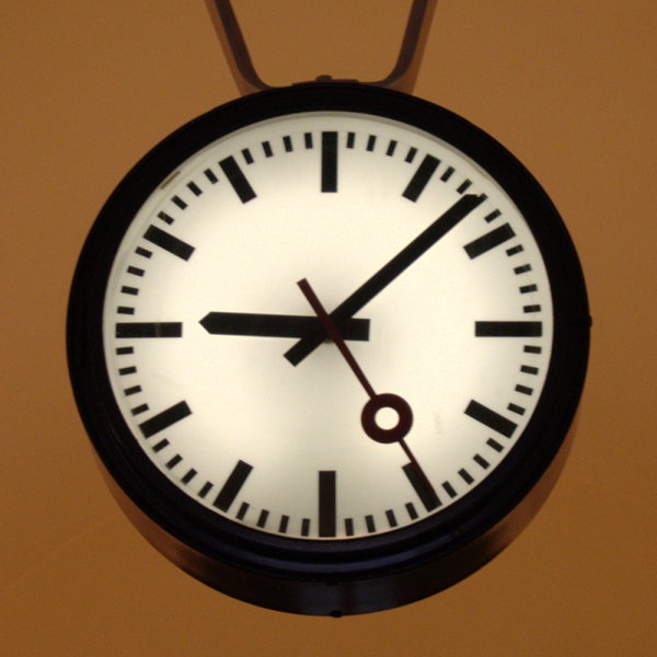 The railway station clock of Middelburg, the Netherlands.